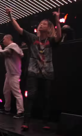 Keith Ape performing at Hardfest in Pomona, California on November 2, 2015